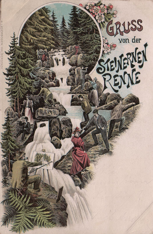 Lithograph of the Steinerne Renne stream, Saxony-Anhalt, Germany. A 1900 postcard in Hejkal's collection